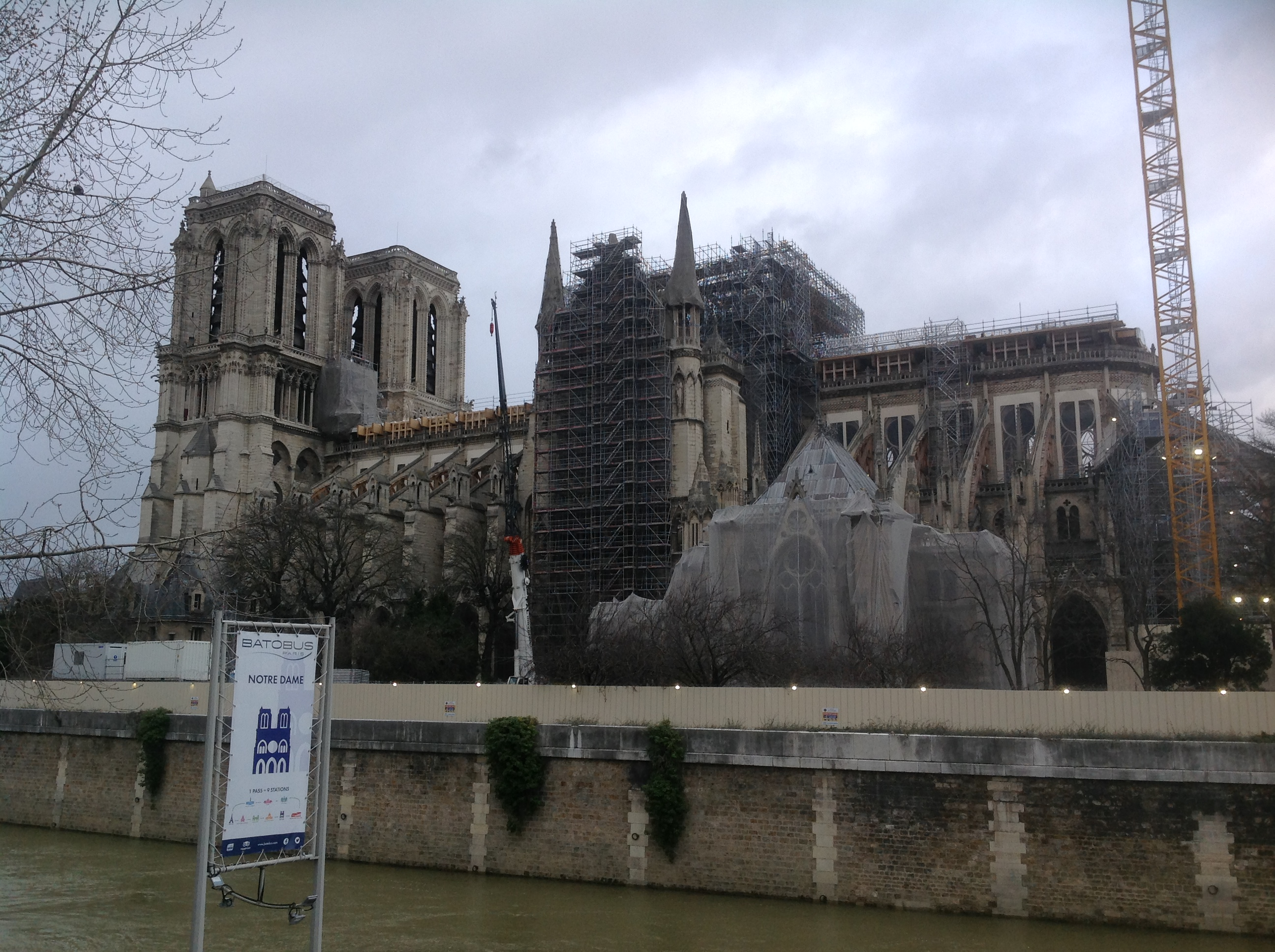 The windows of the Cathedral nave been removed, and a crane is removing the remains of the roof and the melted spire and scaffolding